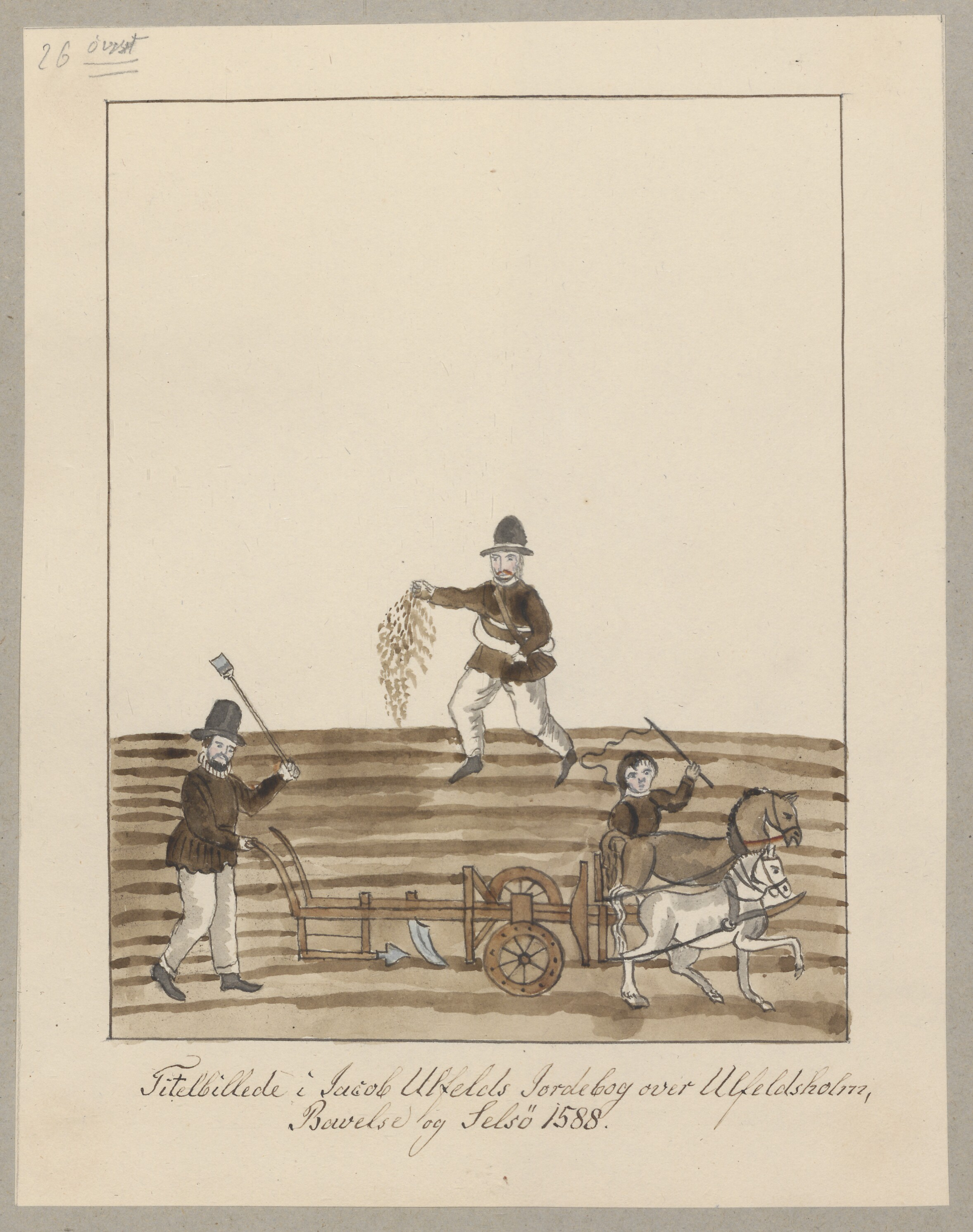 Titelbillede i Jacob Ulfelds Jordebog over Ulfeldsholm, Bavelse og Selsø 1588